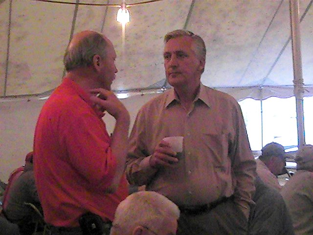 Minnesota U.S. Congressional candidate El Tinklenberg. 9-25-08 Photo: Laura Markwardt